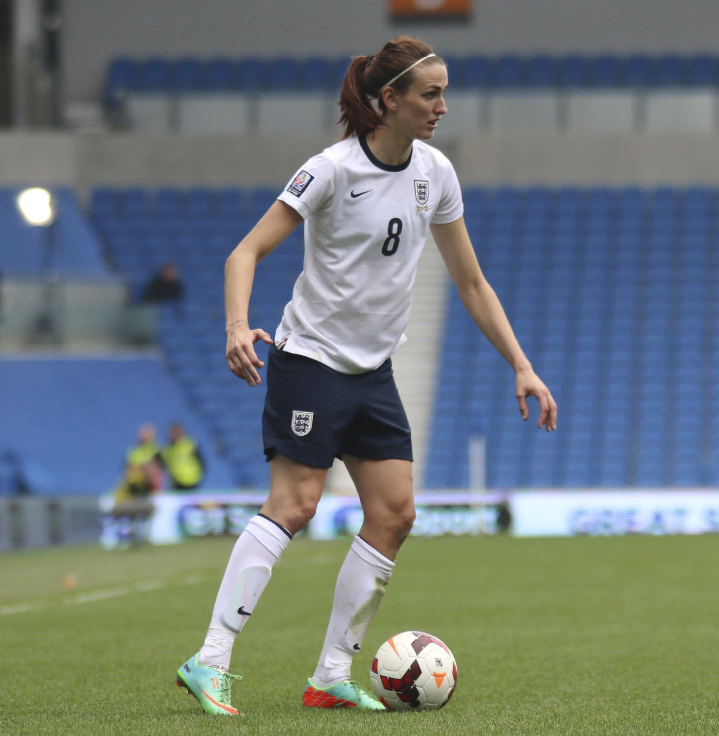 Jill Scott of England